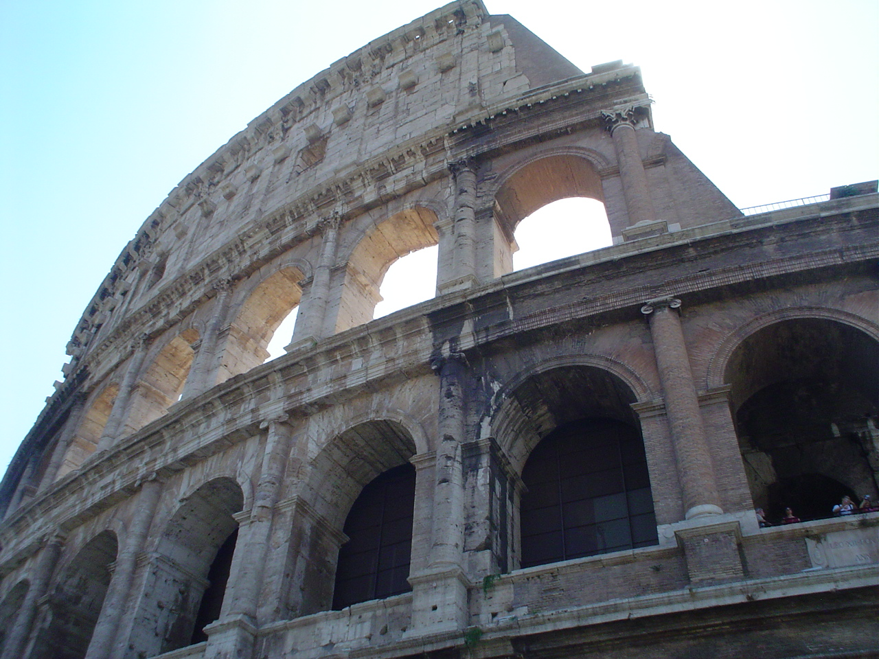 The Colosseum in Rome, picture taken in the summer of 2003.